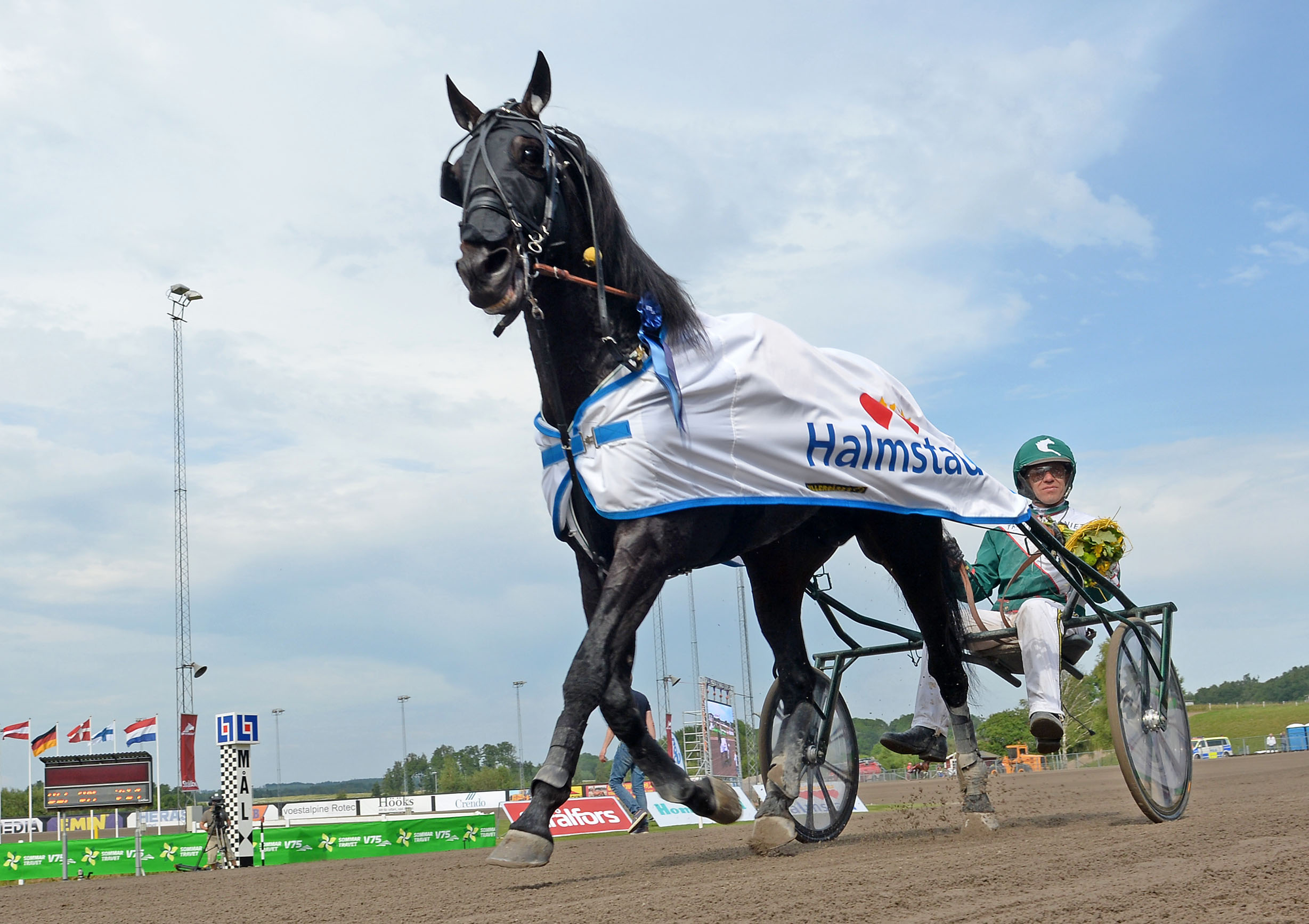 Orrecchietti and driver Örjan Kihlström 2014-07-12